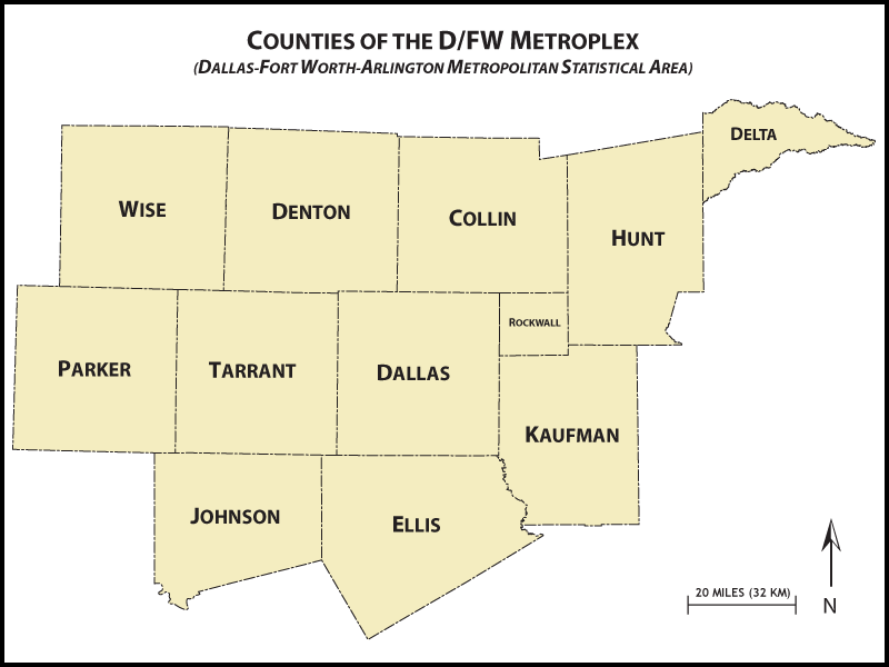 Created by troy34 on 4/1/07